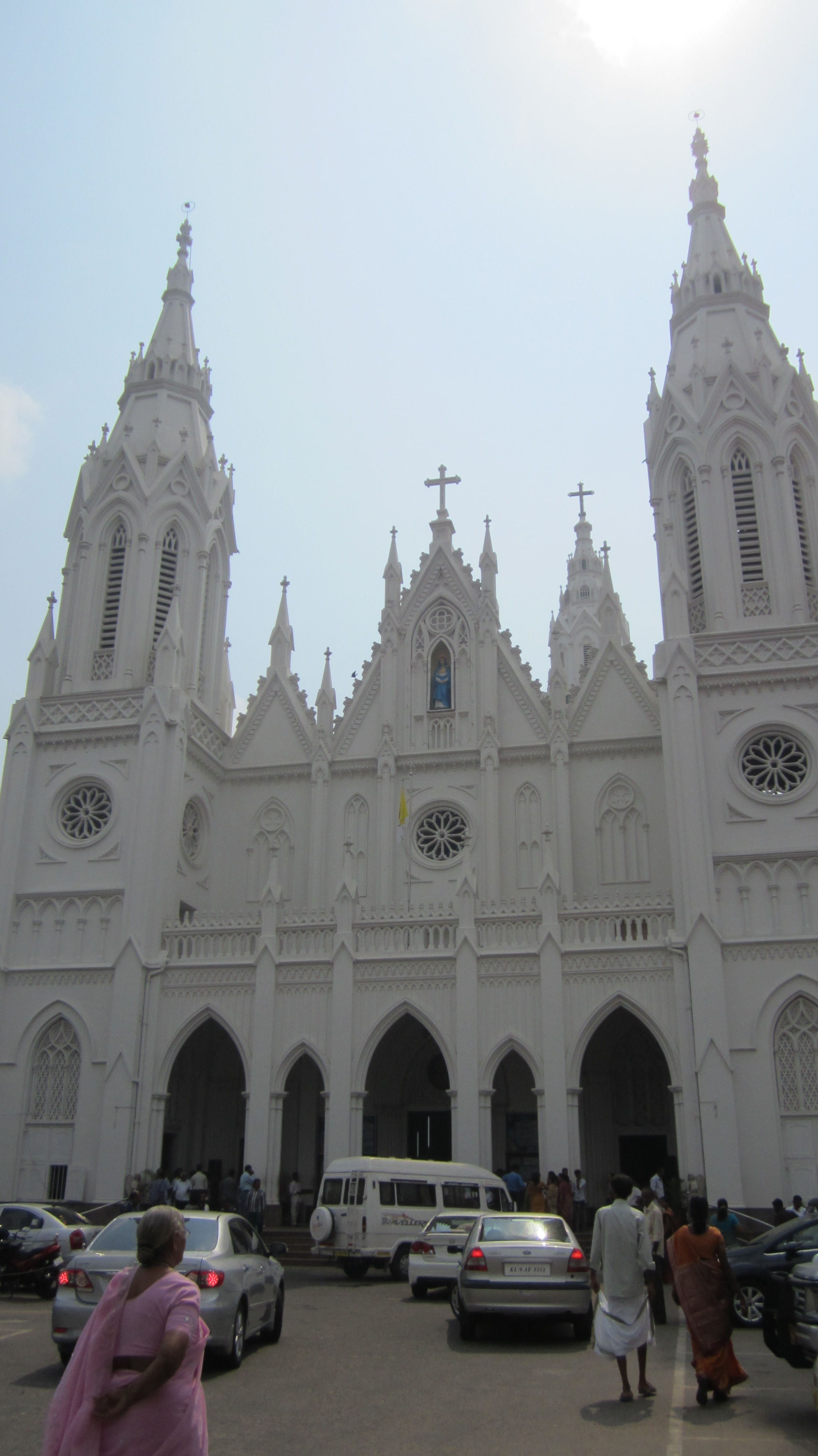 facade of Basilica of Our Lady of Dolours, Trichur